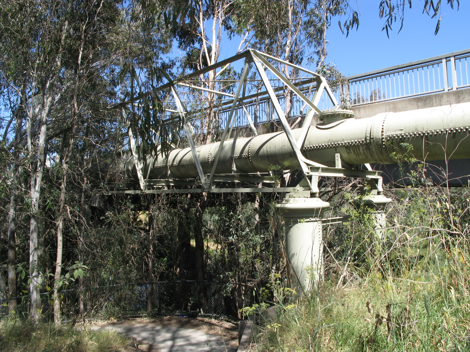 Banksia Street Bridge from the Heidelberg side showing the pipe bridge and footpath. Photo taken by myself in Jan 2009.